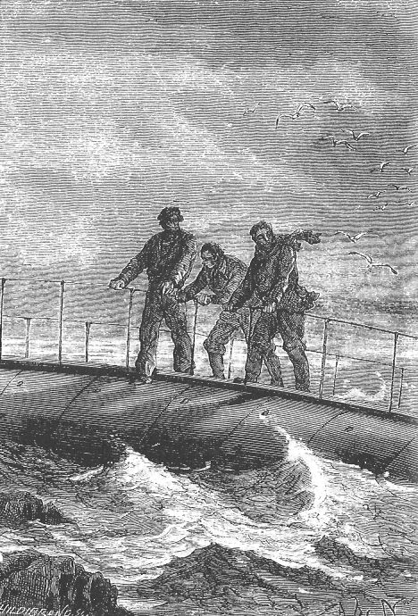 An illustration from Jules Verne's novel "Twenty Thousand Leagues Under the Sea" (1866-69) drawn by George Roux.